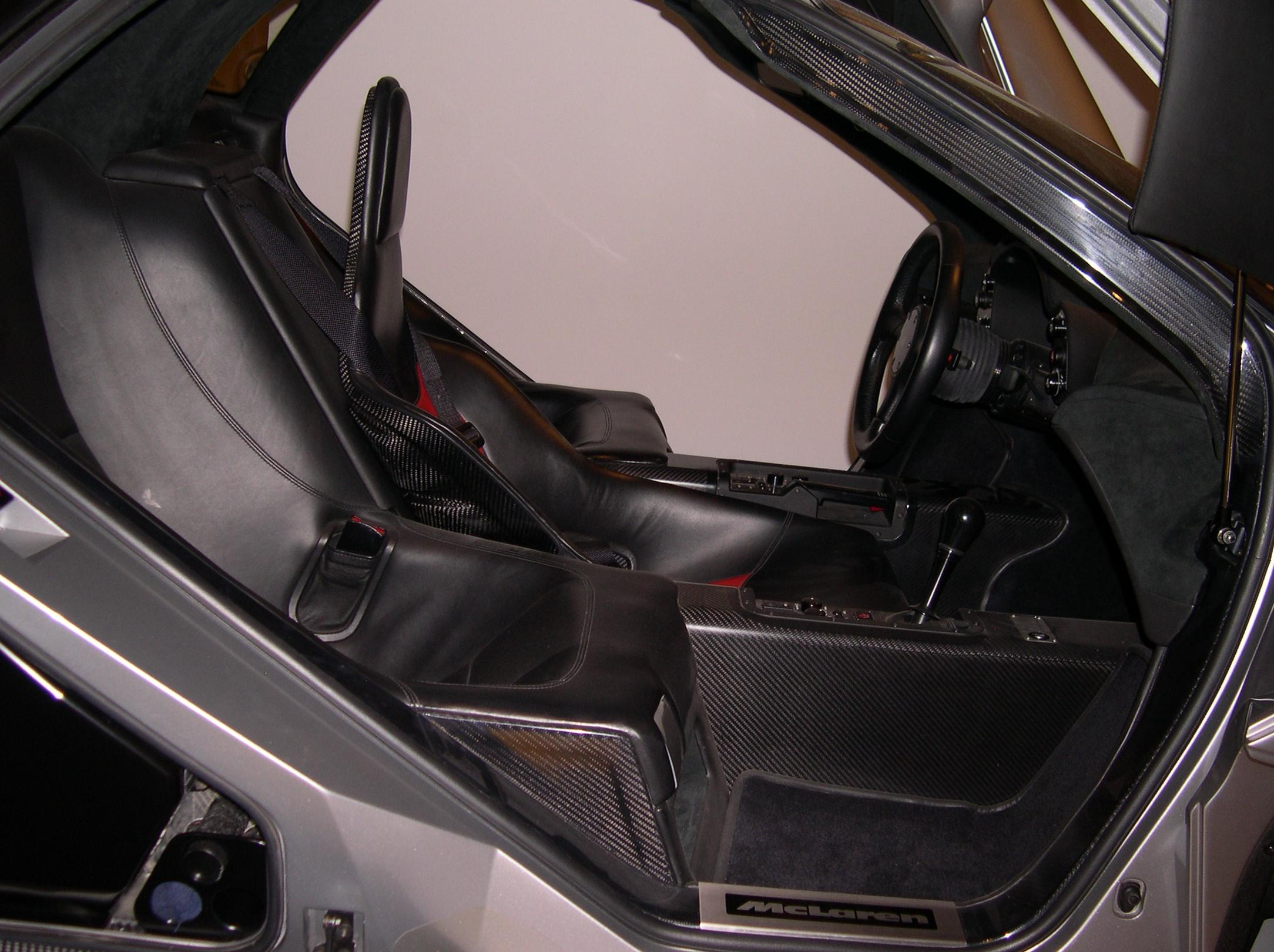 1996 McLaren F1 From the Ralph Lauren collection on display at the Boston Museum of Fine Arts. Photo taken in 2005. Source: Photo by User:Sfoskett